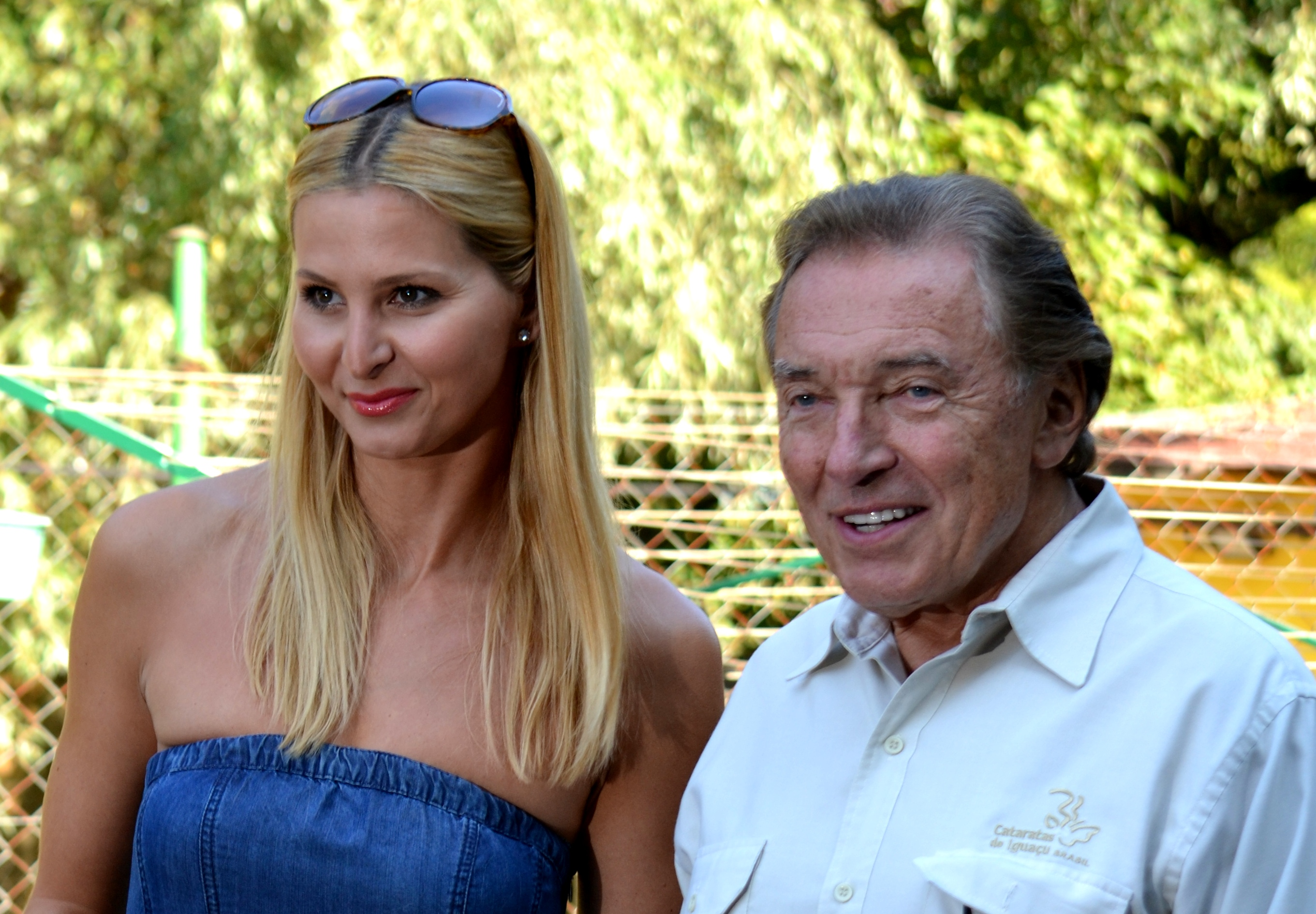 Karel Gott, Czech vocalist with his wife Ivana, Czech TV presenter